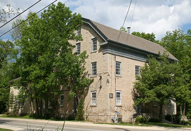 The Concordia Mill, a National Registered Historic Place, in Hamilton, in the Town of Cedarburg, Wisconsin.